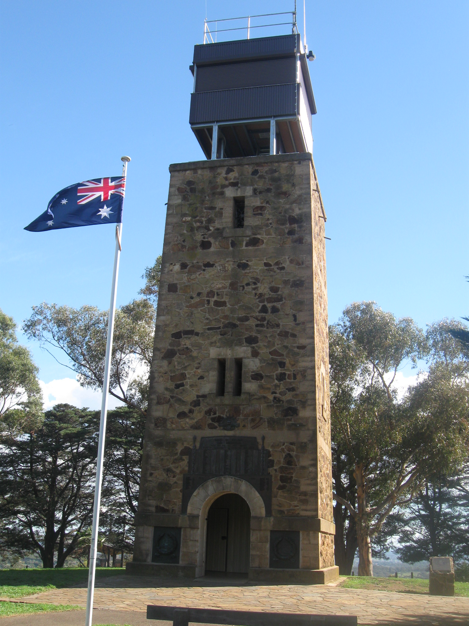 Kangaroo Ground Tower of Remembrance from the east. Showing entrance and flag pole.